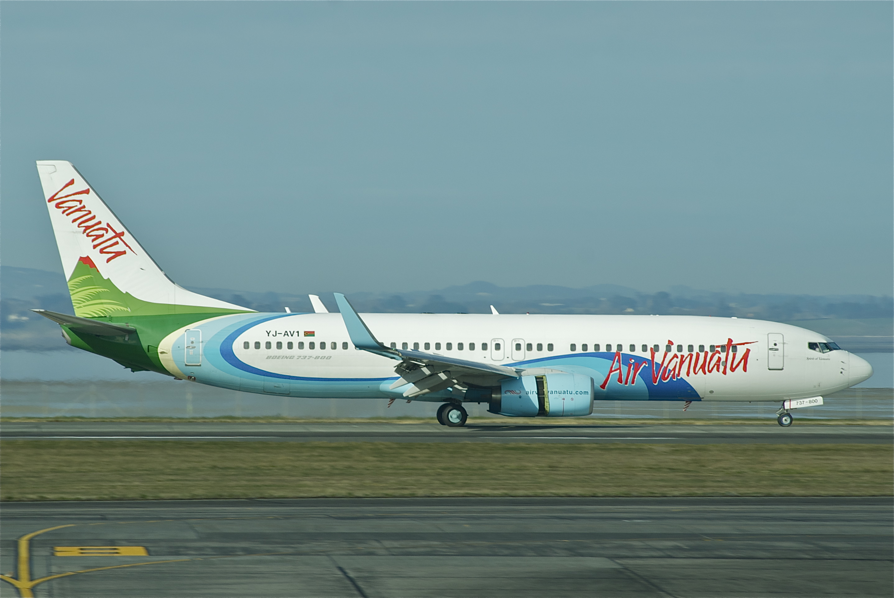 This Boeing 737-8Q8, logically named 'Spirit of Vanuatu', took its first flight on December 17, 2007 and was delivered to the Pacific airline on January 14, 2008...(c/n 30734/2477)